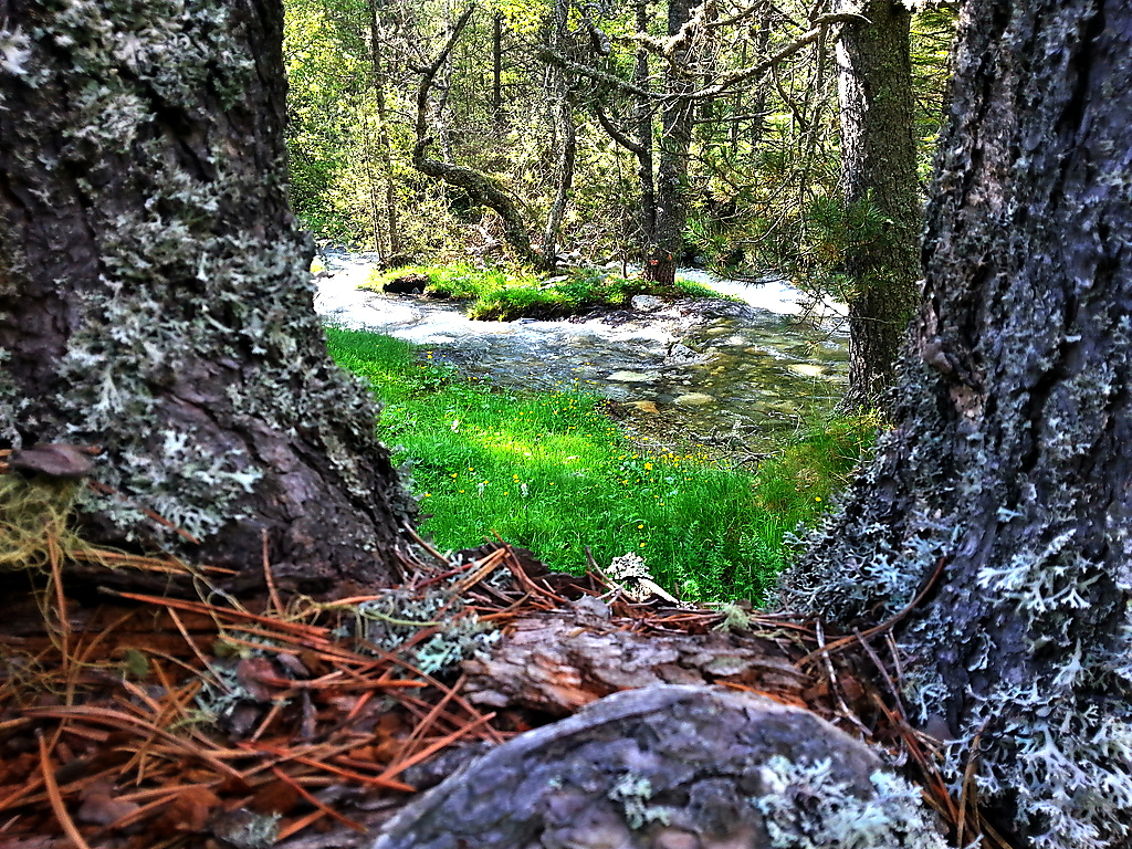 This is a photography of a Special Area of Conservation in Spain with the ID: ES0000022. Natura2000 entry, EEA entry